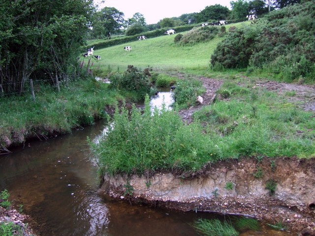 River Synderford A tiny meander on the little tributary of the Axe, forming the western boundary of the very large parish of Broadwindsor. A herd of bullocks, obviously upset by my progress along Broadwindsor footpath 50, is rapidly relocating to the next field. Looking downstream.